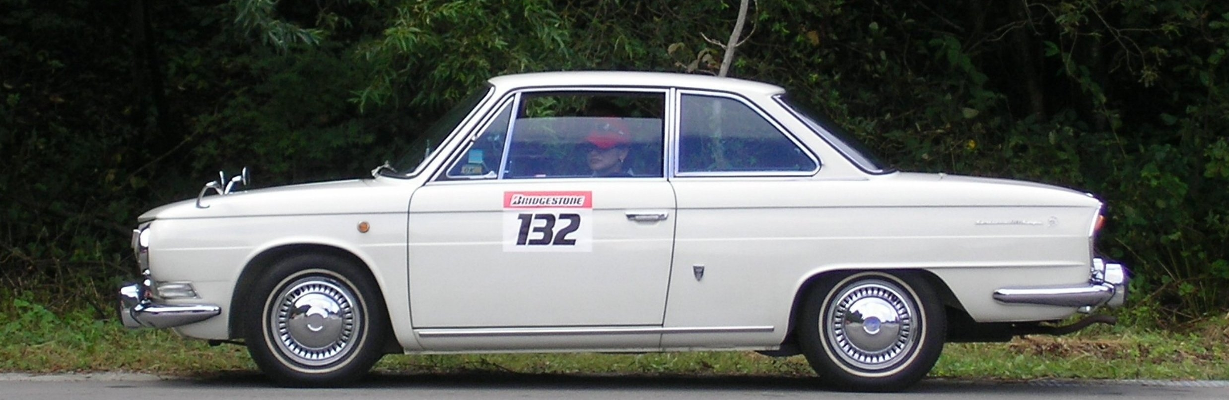 side view of Hino Contessa coupe